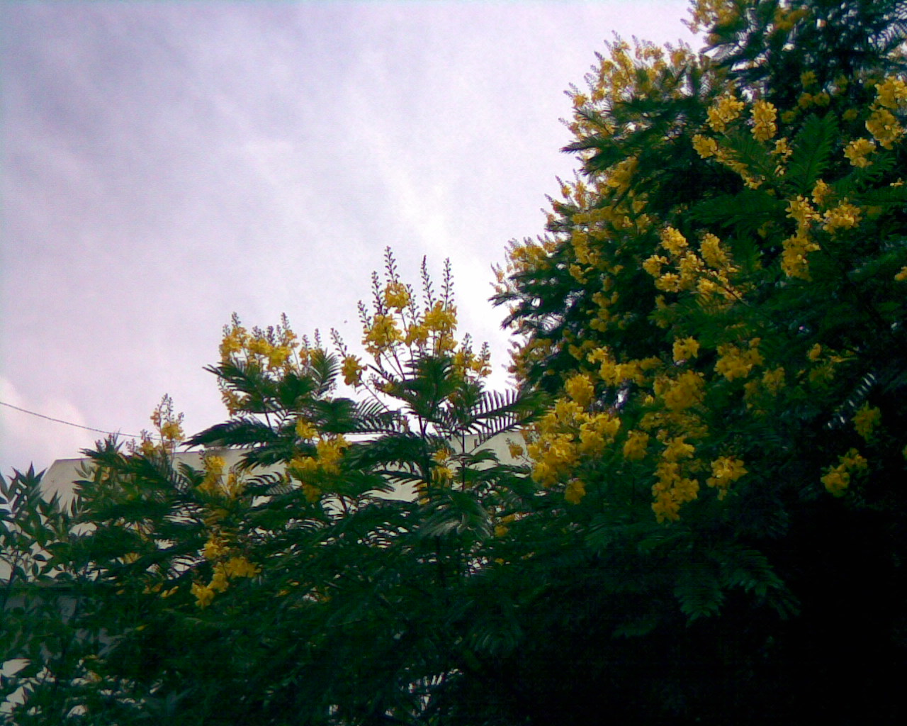 Peltophorum_dubium Ibira-pita flowers